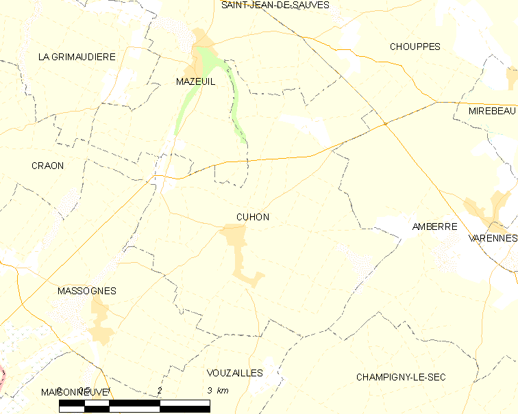 Map of French municipality Cuhon